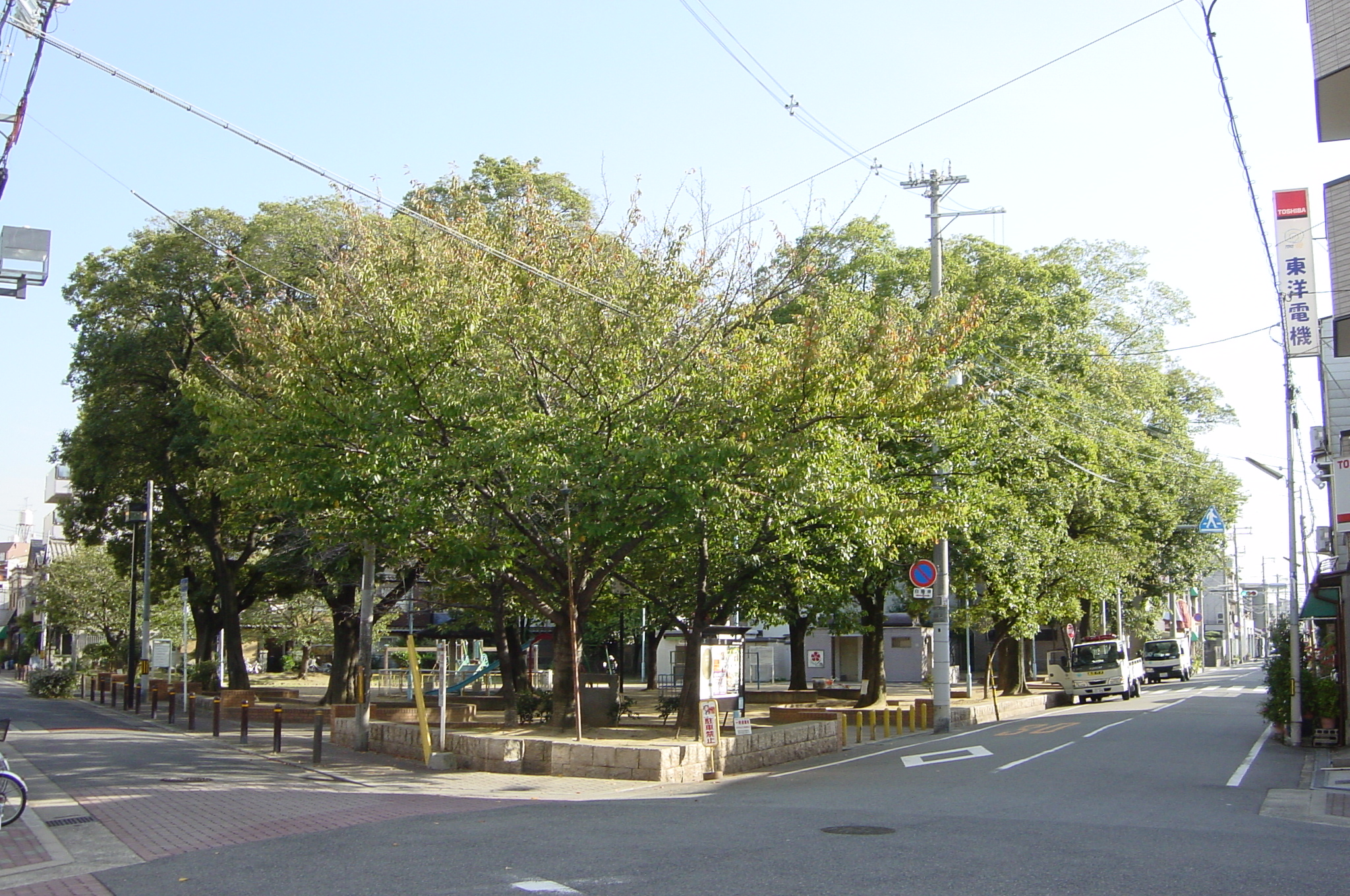 Kumata ikuwa kouen 1